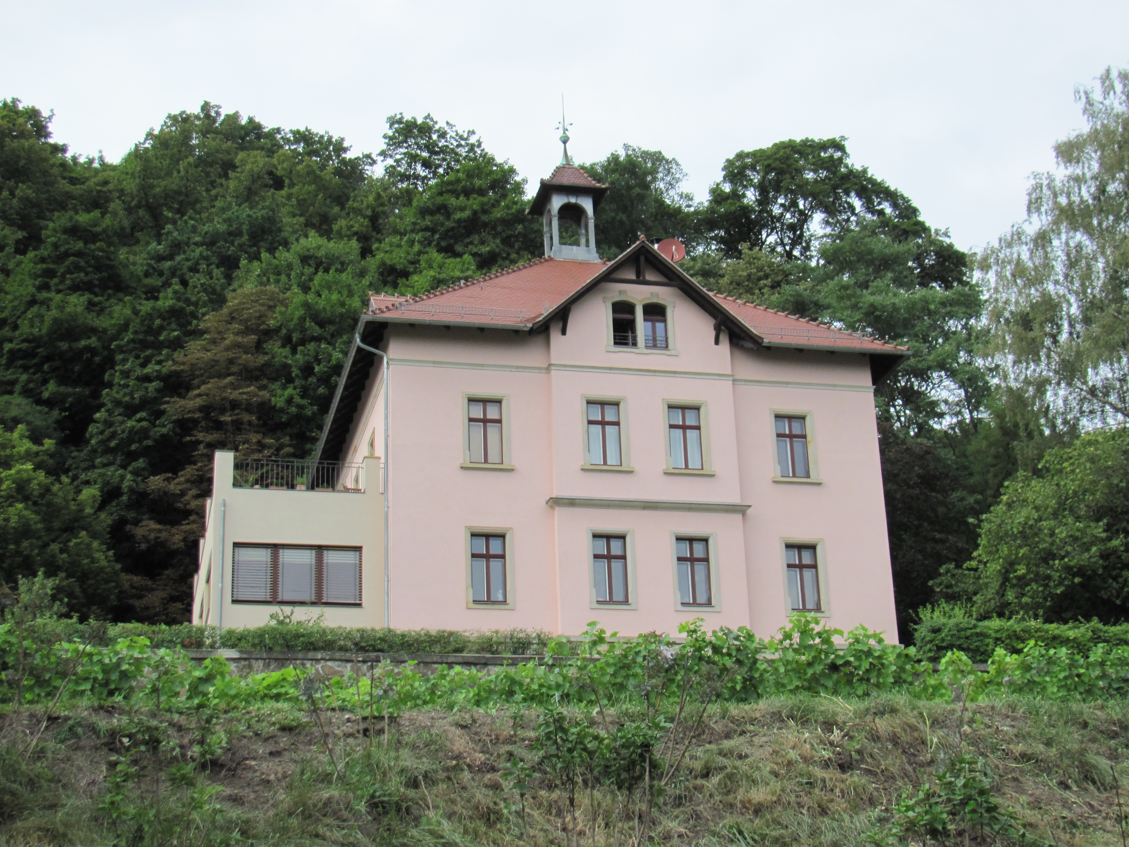 Augustusweg 88 Oberlößnitz